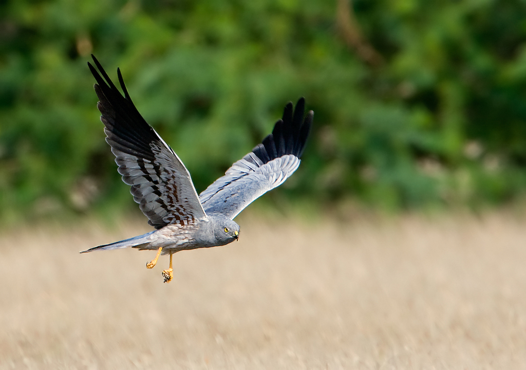 Montagu's Harrier Male with Dragonfly catch in Little Rann of Kutch, India